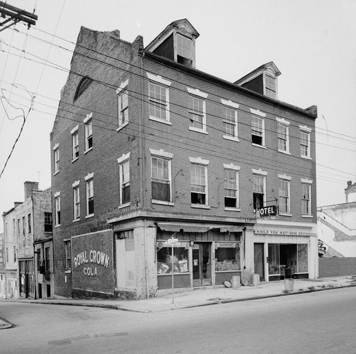 Nathaniel Friend Jr. House, 27-29 Bollingbrook Street (Petersburg city, Virginia) cropped, HABS VA,27-PET,28-1 This file comes from the Historic American Buildings Survey (HABS), Historic American Engineering Record (HAER) or Historic American Landscapes Survey (HALS). These are programs of the National Park Service established for the purpose of documenting historic places. Records consist of measured drawings, archival photographs, and written reports. When reusing please credit: Library of Congress, Prints & Photographs Division, VA-651 This tag does not indicate the copyright status of the attached work. A normal copyright tag is still required. See Commons:Licensing for more information. English | +/− This work is in the public domain in the United States because it is a work prepared by an officer or employee of the United States Government as part of that person’s official duties under the terms of Title 17, Chapter 1, Section 105 of the US Code. See Copyright. Note: This only applies to original works of the Federal Government and not to the work of any individual U.S. state, territory, commonwealth, county, municipality, or any other subdivision. This template also does not apply to postage stamp designs published by the United States Postal Service since 1978. (See § 313.6(C)(1) of Compendium of U.S. Copyright Office Practices). It also does not apply to certain US coins; see The US Mint Terms of Use. This file has been identified as being free of known restrictions under copyright law, including all related and neighboring rights.